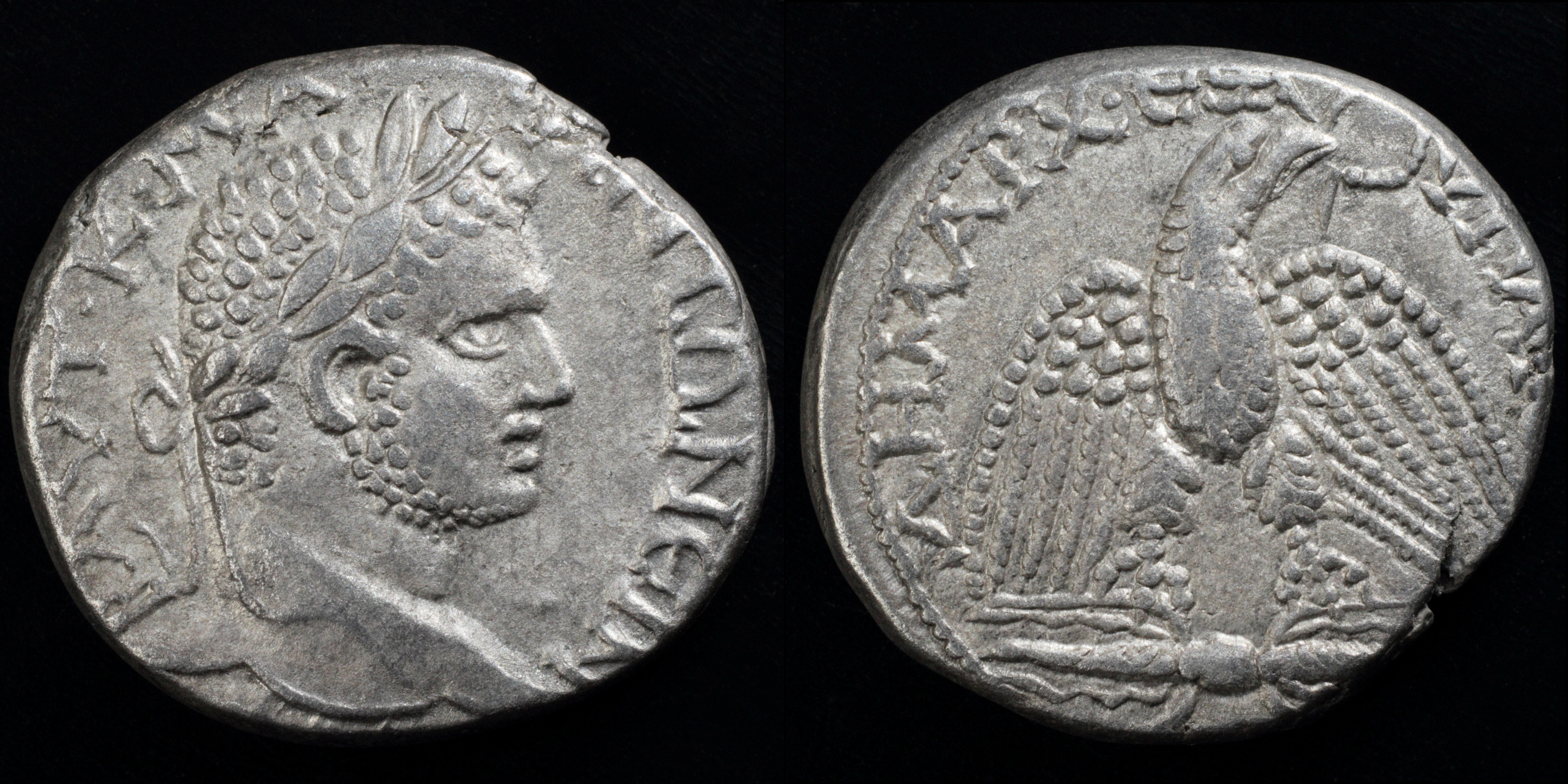 struck in 215-217 AD obverse: laureate head right AVT·K·M·A· ·ANTΩNEINOC CEB reverse: eagle facing, standing on thunderbolt, head right, wreath in beak ΔHMAPX·EΞ·_VΠATO ? rederence: Bellinger 76; Prieur 1188 var. (distribution of obv. legend)